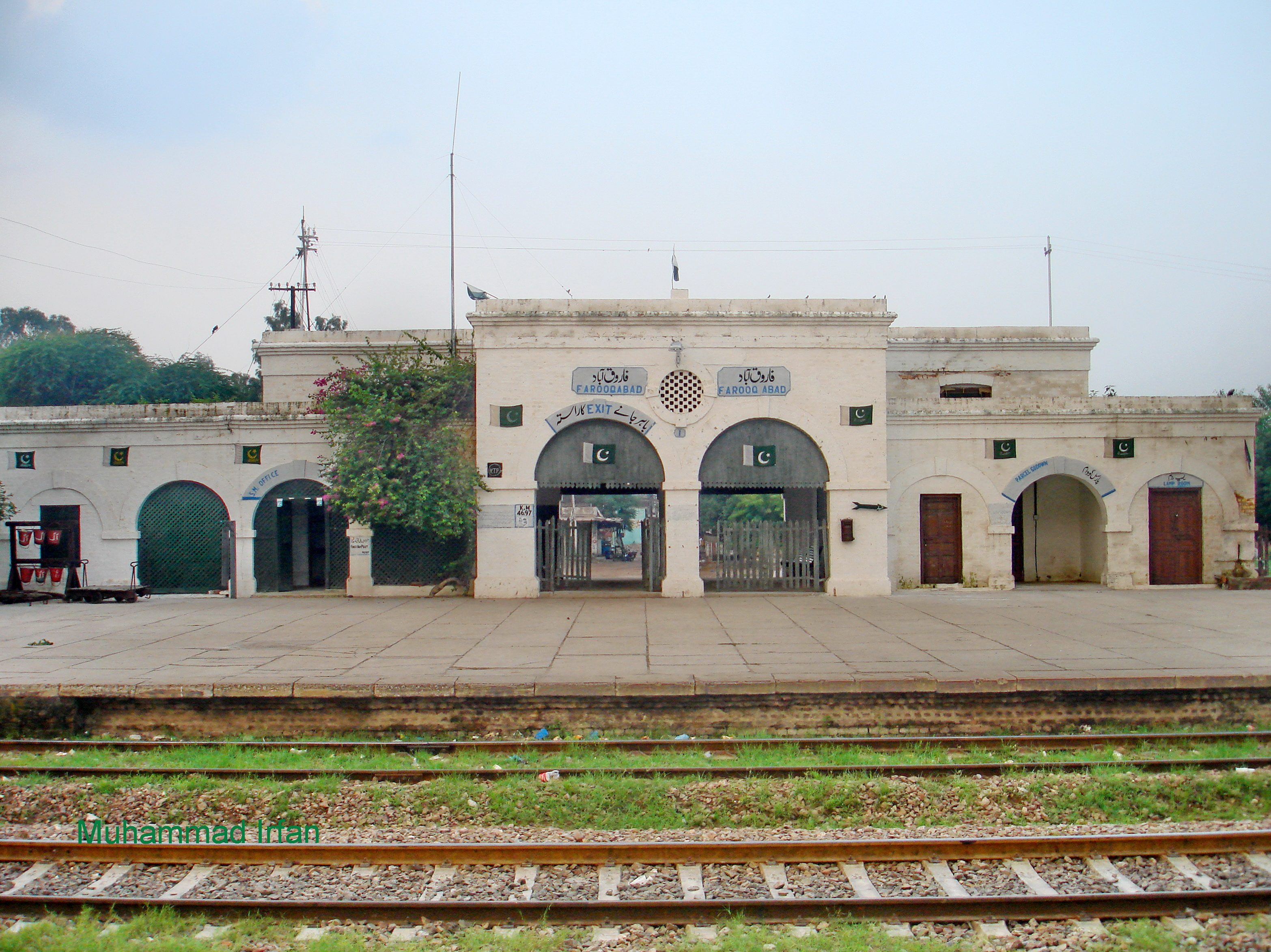 Lahore-Faisalbad-Karachi Main Railway Line.